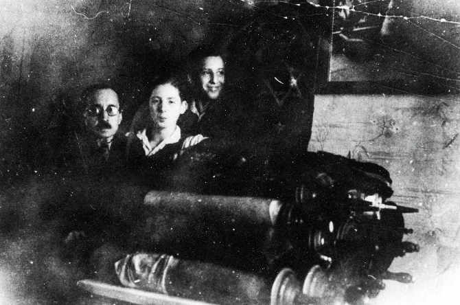 David Zwingerman (right) with Horst Lowenstein (centre) and an unknown adult with saved Torah scrolls from the Markgraf-Albrecht-Strasse synagogue after the 1938 pogrom.